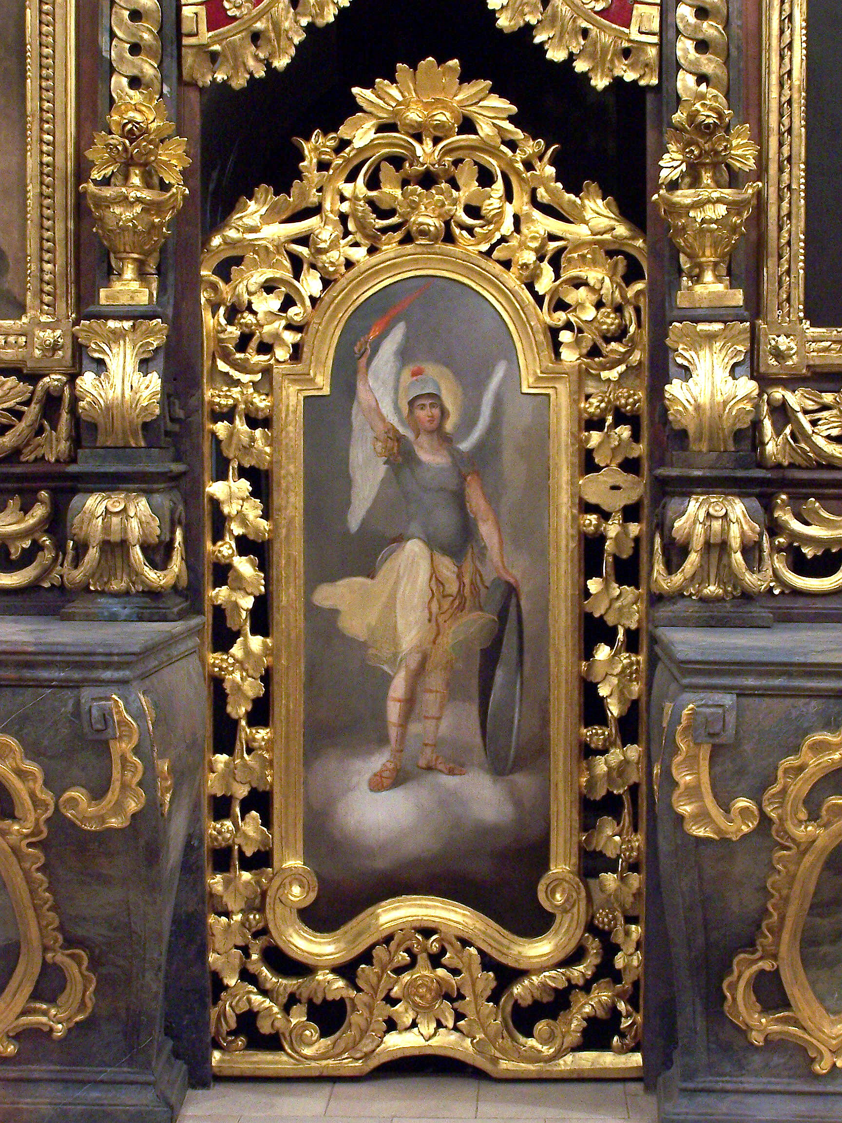 The picture is a Greek Catholic icon of the archangel Michael. The angel holds a flaming sword in his hand. The icon was painted in the end of the 18th century as part of the iconostasis of the Greek Catholic Cathedral of Hajdúdorog, Hungary. Michael is depicted on the northern Deacons' Door.